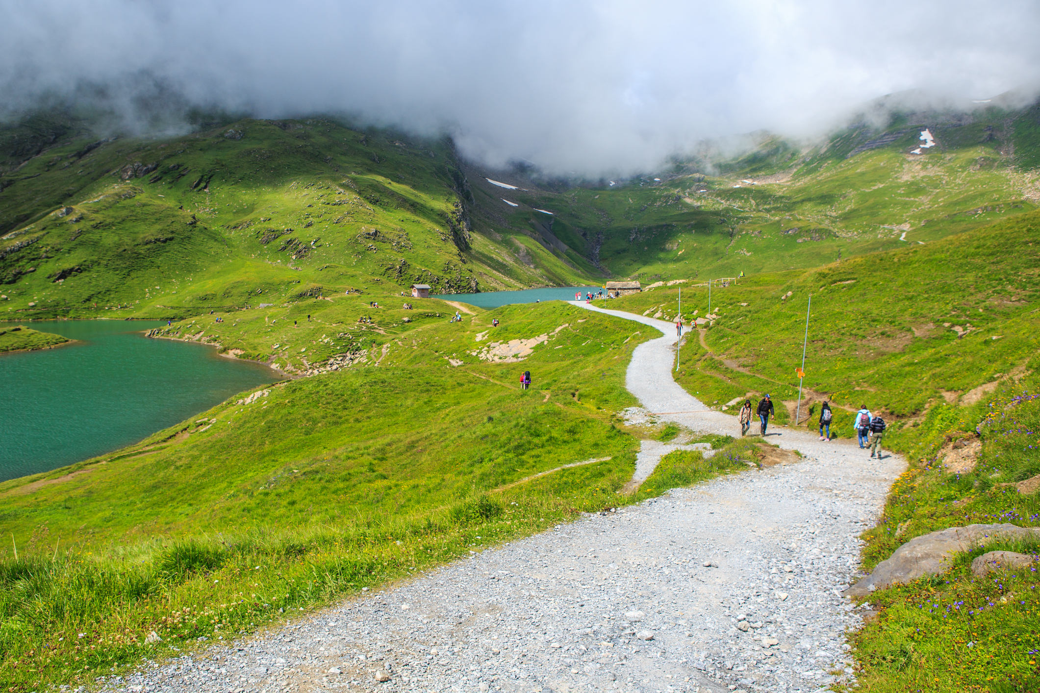 a day in the Grindelwald area...up to First & Bachsee...the final trail from First to Bachsee